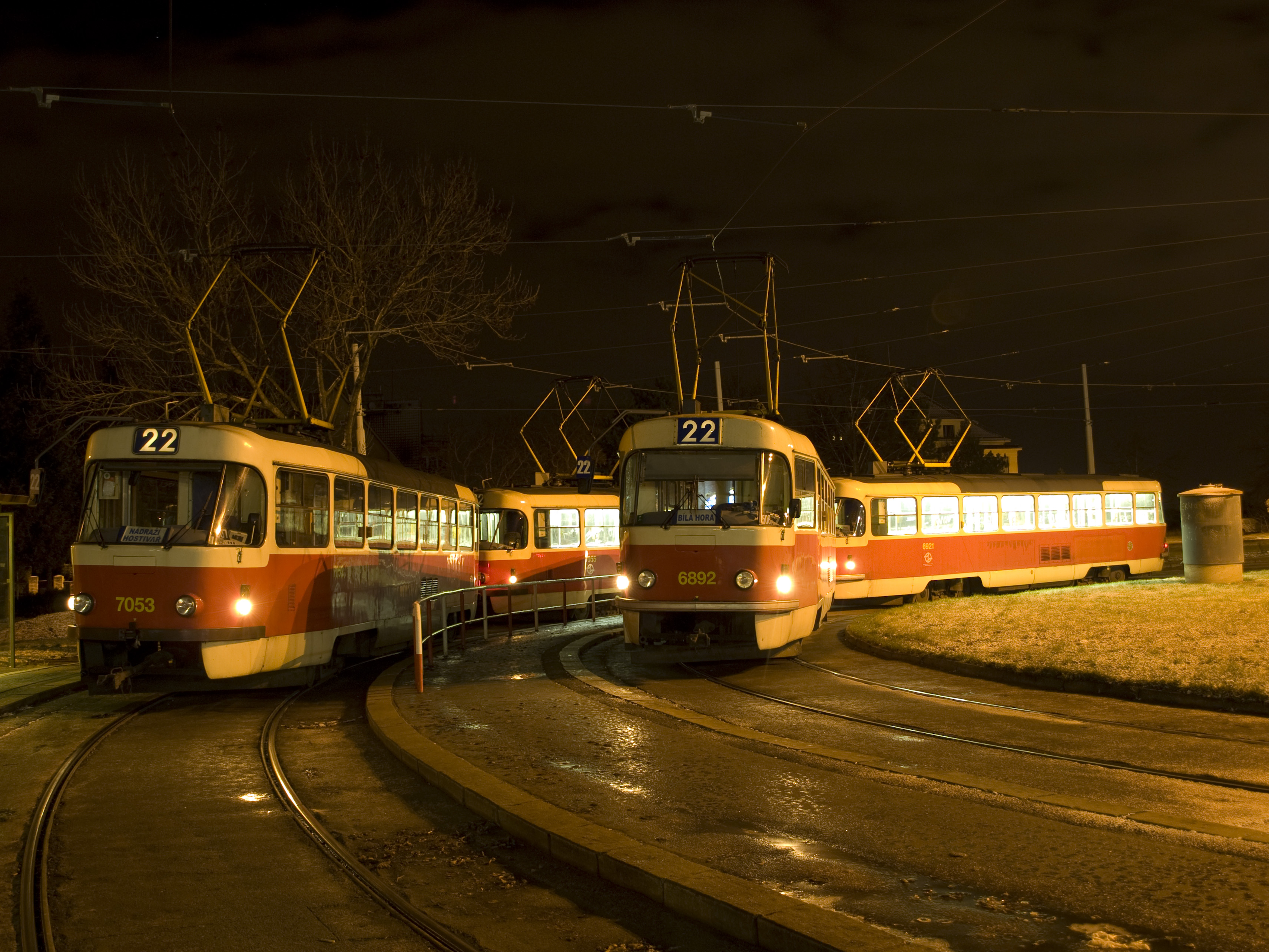 Pre-last day of Tatra T3 in Prague, 6892+6921 (right) and Tatra T3SUCS (left), tram loop Bílá Hora, Prague, Czech Republic